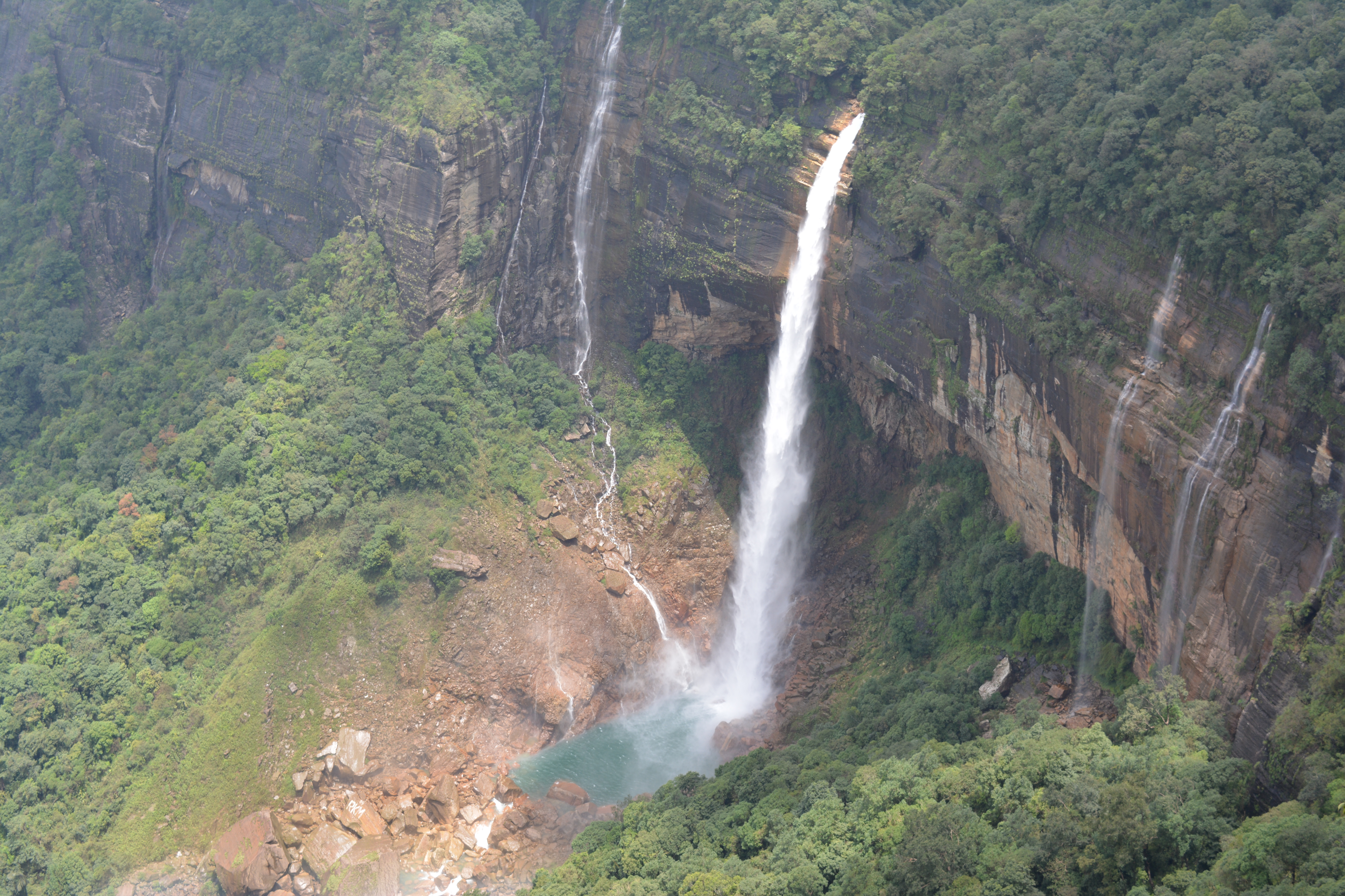 Nohkilakai Falls near Cherrapunji in Meghalaya state